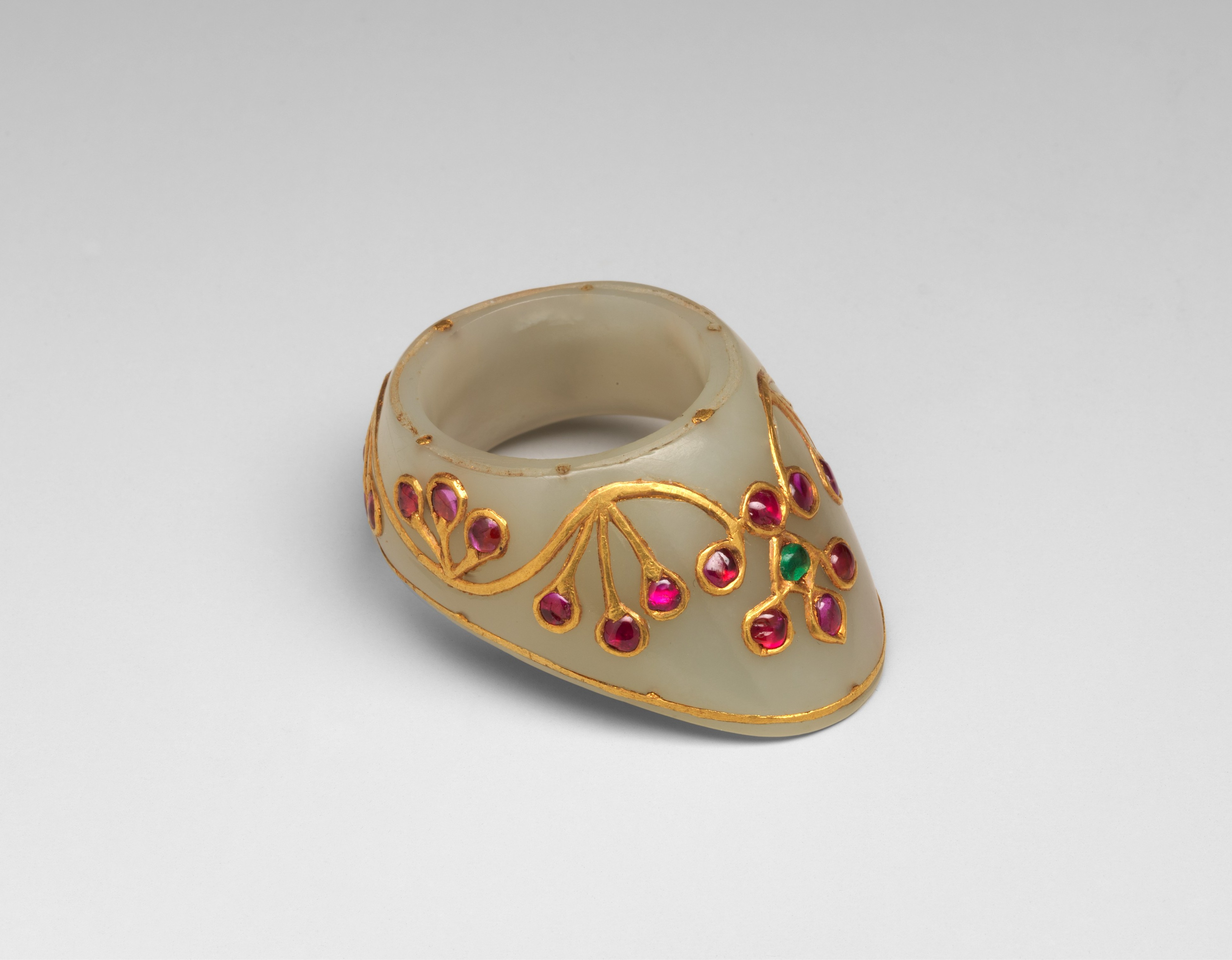 Indian; Archer's ring; Archery Equipment-Archer's Ring